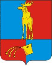 Monchegorsk (Murmansk oblast), coat of arms